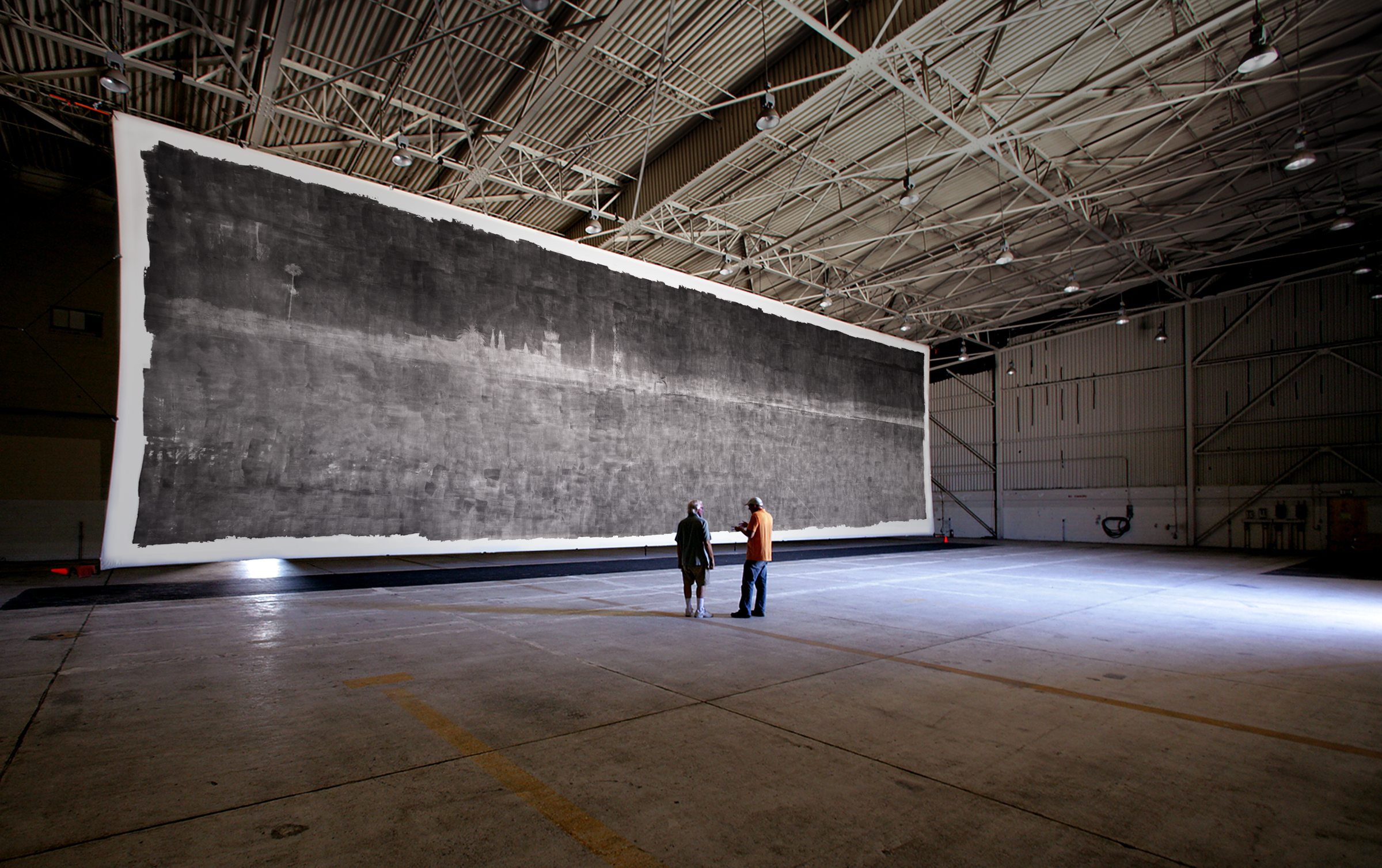 The completed photograph on July 11, 2006 suspended in Hangar #115 where it was made. The two persons standing in front of the picture are Legacy Project artist Jerry Burchfield on the left and a visitor on the right.